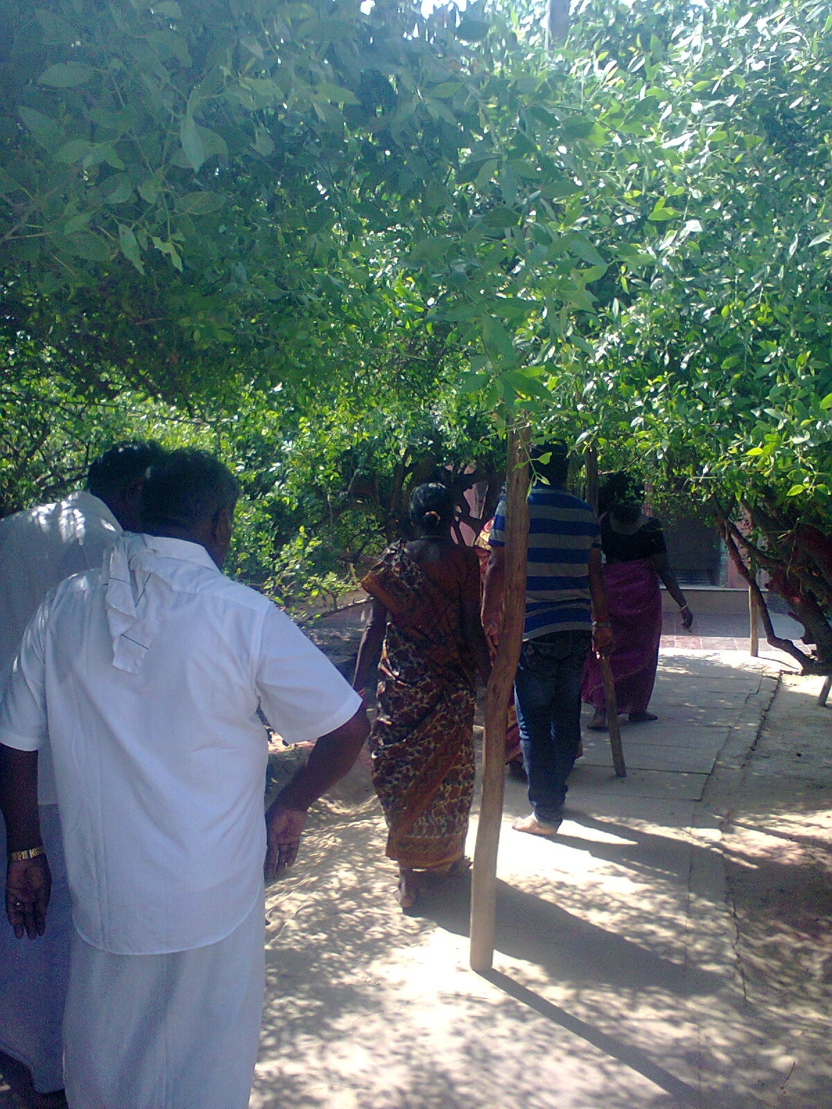 Vrindavan